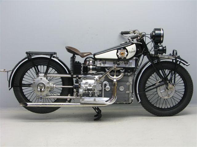 Windhoff 750 cc motorcycle from 1928.